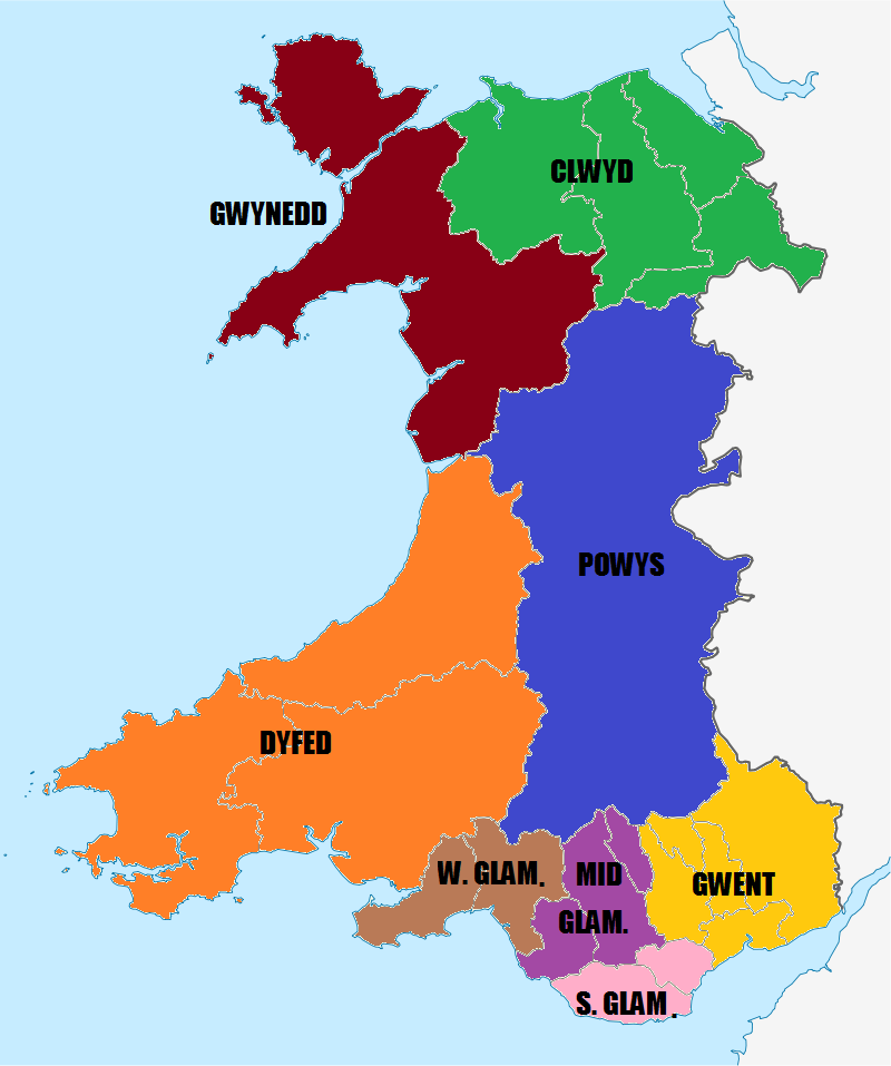 Preserved counties of Wales, and current divisions marked